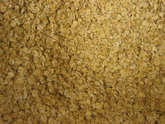 Porridge oats